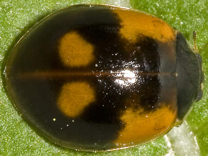 Two-spotted lady beetle (Adalia bipunctata) Location: Dresden, Pohrsdorfer Weg (Saxony, Germany) --- nl: Tweestippelig lieveheersbeestje (Adalia bipunctata) --- de: Zweipunkt-Marienkäfer (Adalia bipunctata)